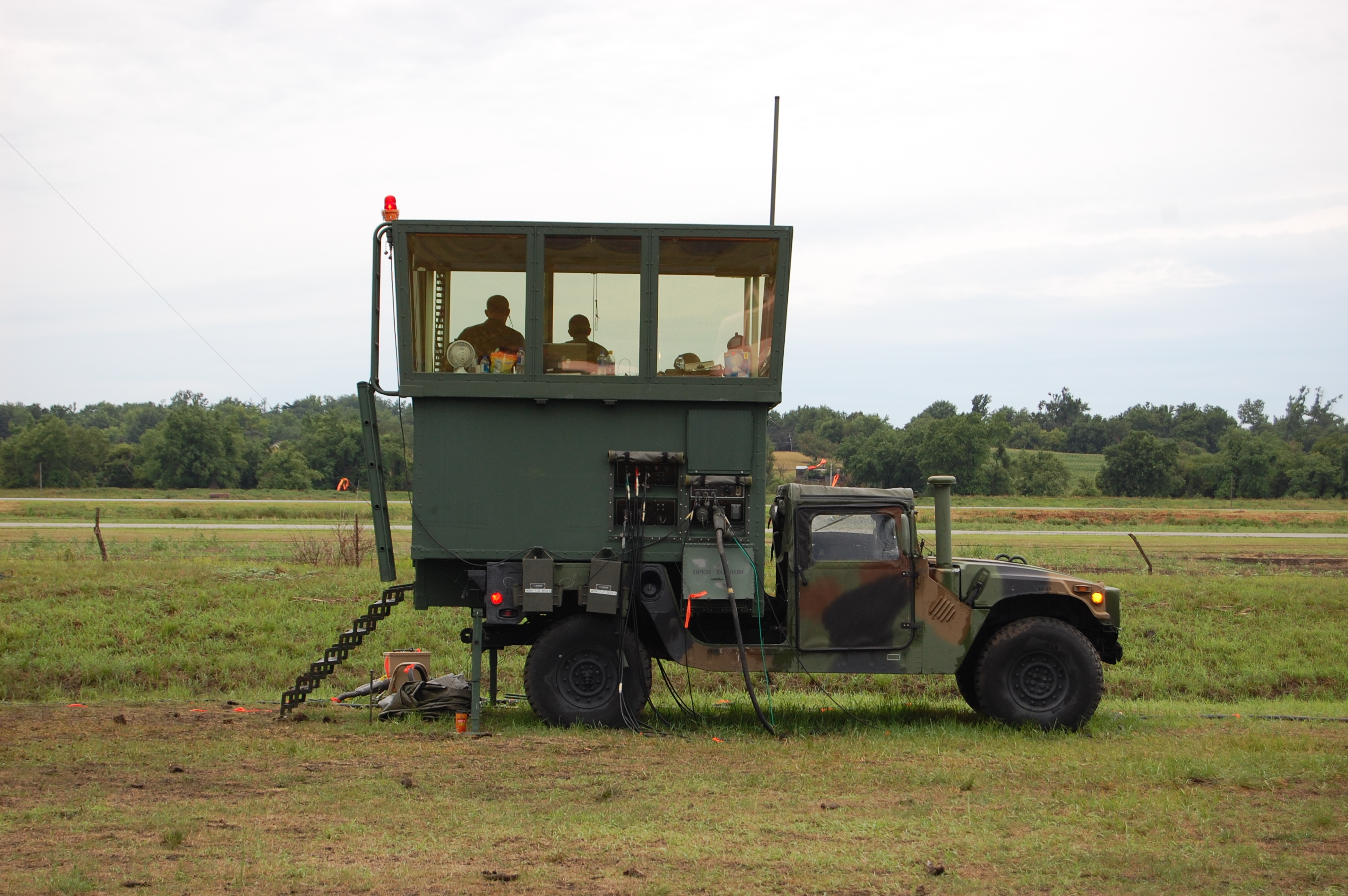 Controllers work in the MSN7 Mobile Control Tower in Tarkio, Missouri